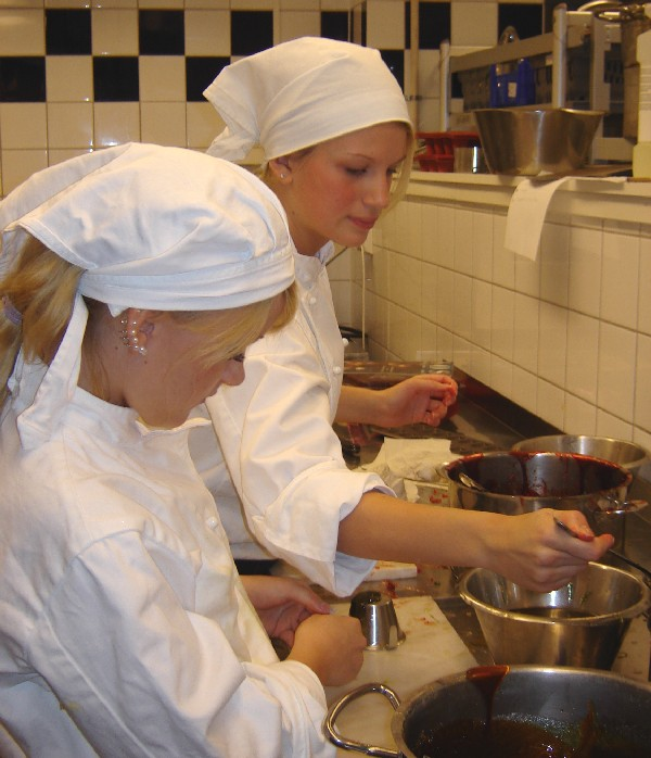 Cooking together